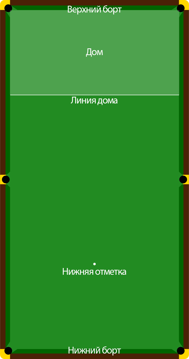 Pool table zones descrition in russian